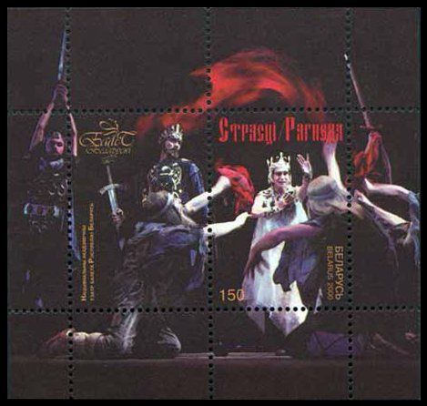 Souvenir sheet of Belarus "Passion Ballet (Rogneda)", 2000